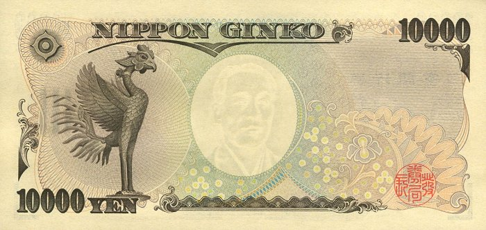 10000 yen banknote, 2004 (back)